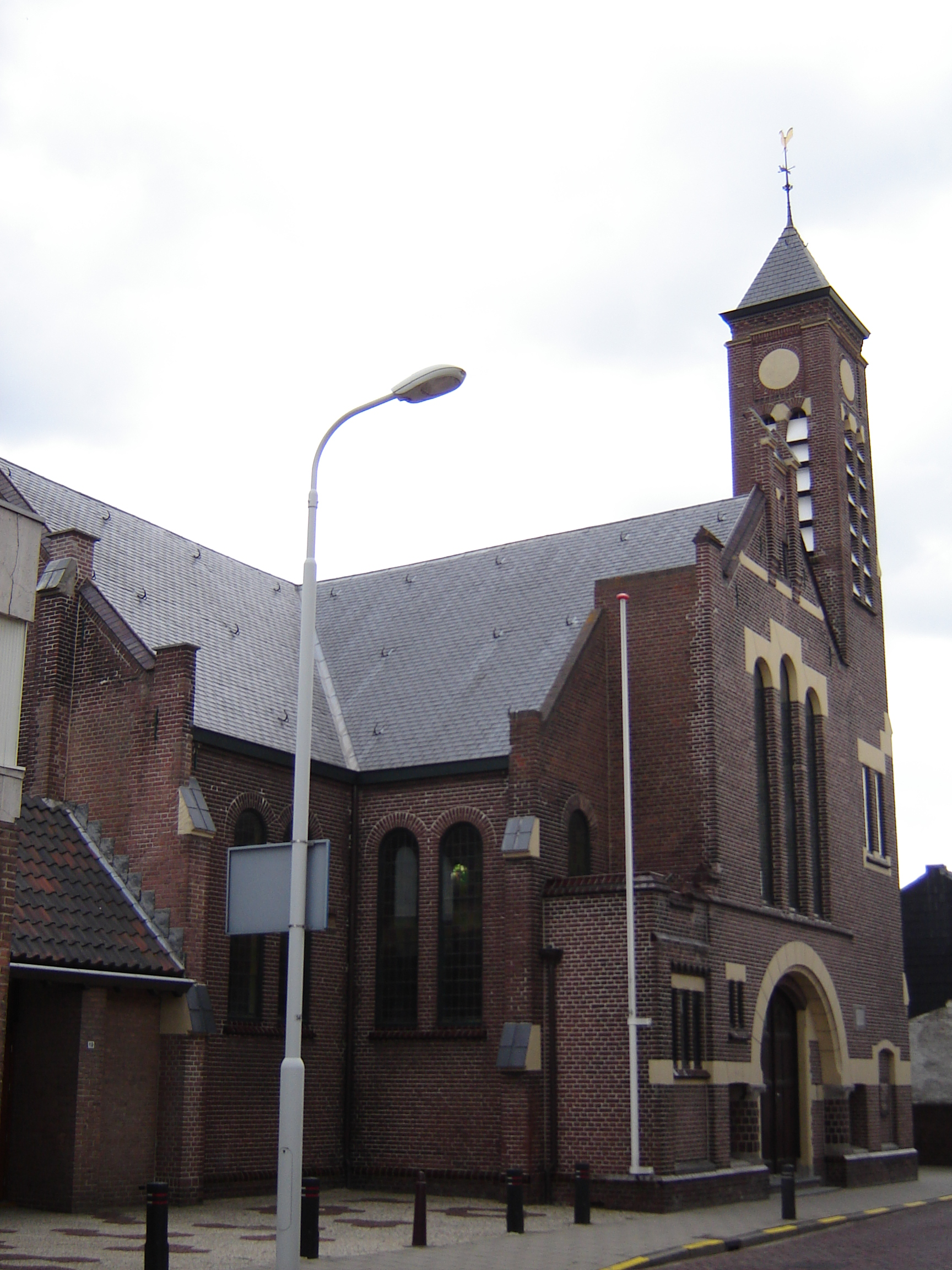 Church of the Reformed Churches Liberated in Axel. Axel, Terneuzen, Zeeland, Netherlands.